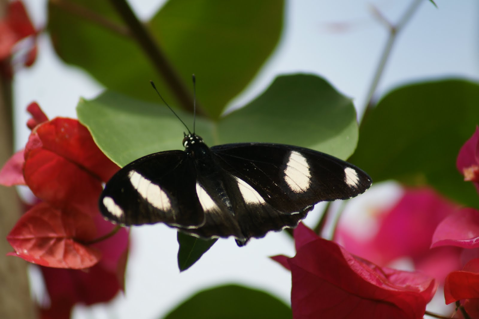 The Danaid Eggfly (Hypolimnas misippus) (male) — from Family Nymphalid, is widespread species of butterfly found across Africa, Asia, and Australia. This examplar is in Nungwi, in the Unguja North Region of Zanzibar Island, Zanzibar Archipelago, Indian Ocean, Tanzania. It is well known for polymorphism and mimicry that's why it also called mimic butterfly. Males are blackish with distinctive white spots that are fringed in blue. Females are in multiple forms that include male like forms while others appear like the toxic Danaus chrysippus and Danaus plexippus butterfles.